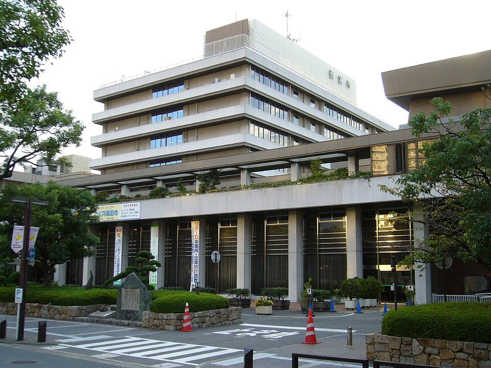 Nishinomiya City Hall